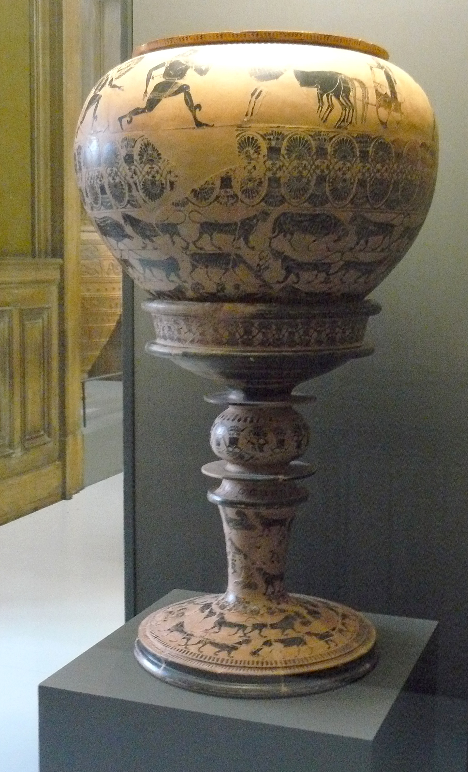 So-called “Gorgon Painter's dinos”, black-figure technique with crimson appreciations (?). From Etruria, ca. 580 BC.